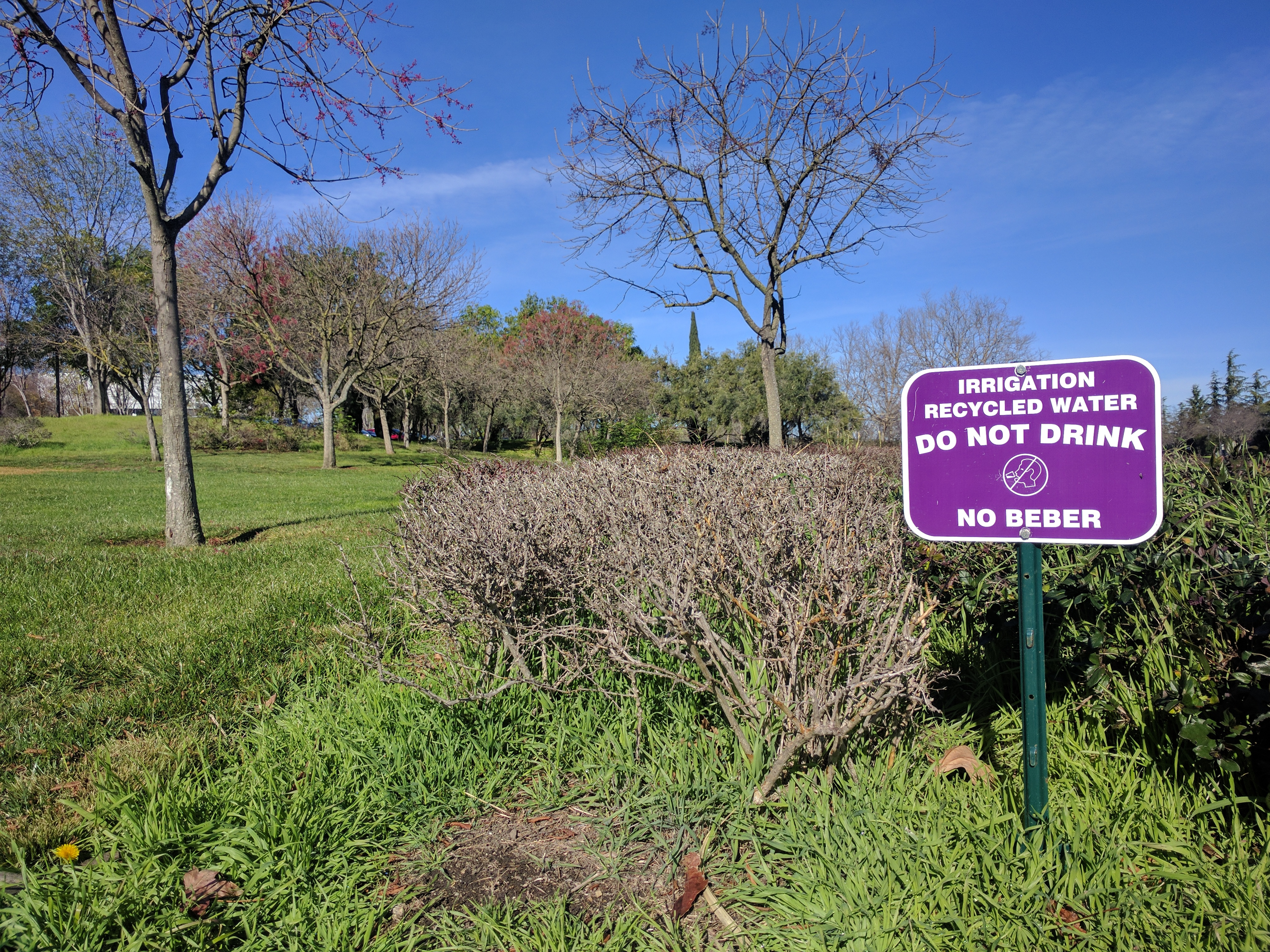 Reclaimed water sign near landscaping on Mountain View, at the Google campus.